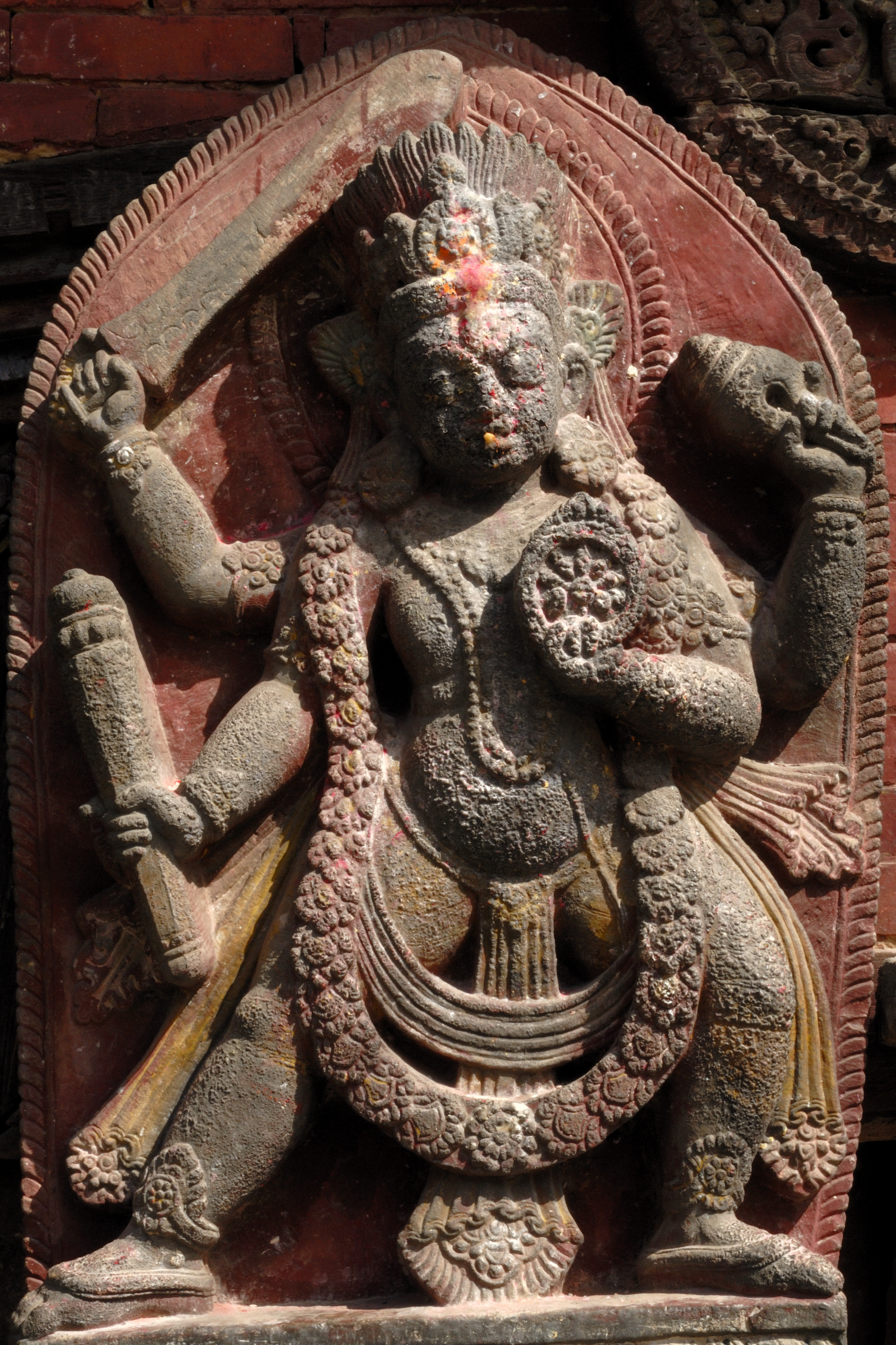 Vishnu, Changu Narayan